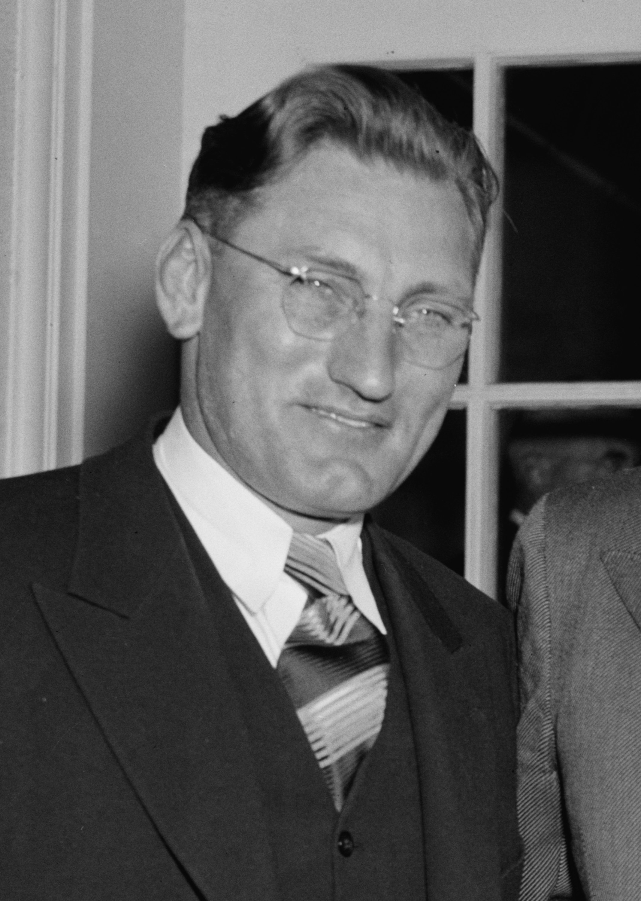 Former Congressman and Lieutenant Governor of California Ellis E. Patterson.